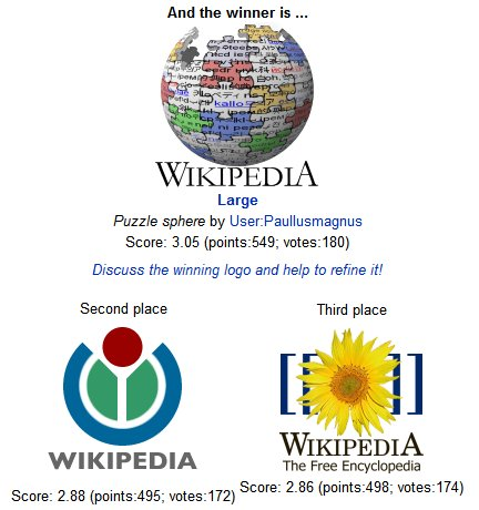 Announce of the result of the Wikipedia Logo International Contest, 2003.